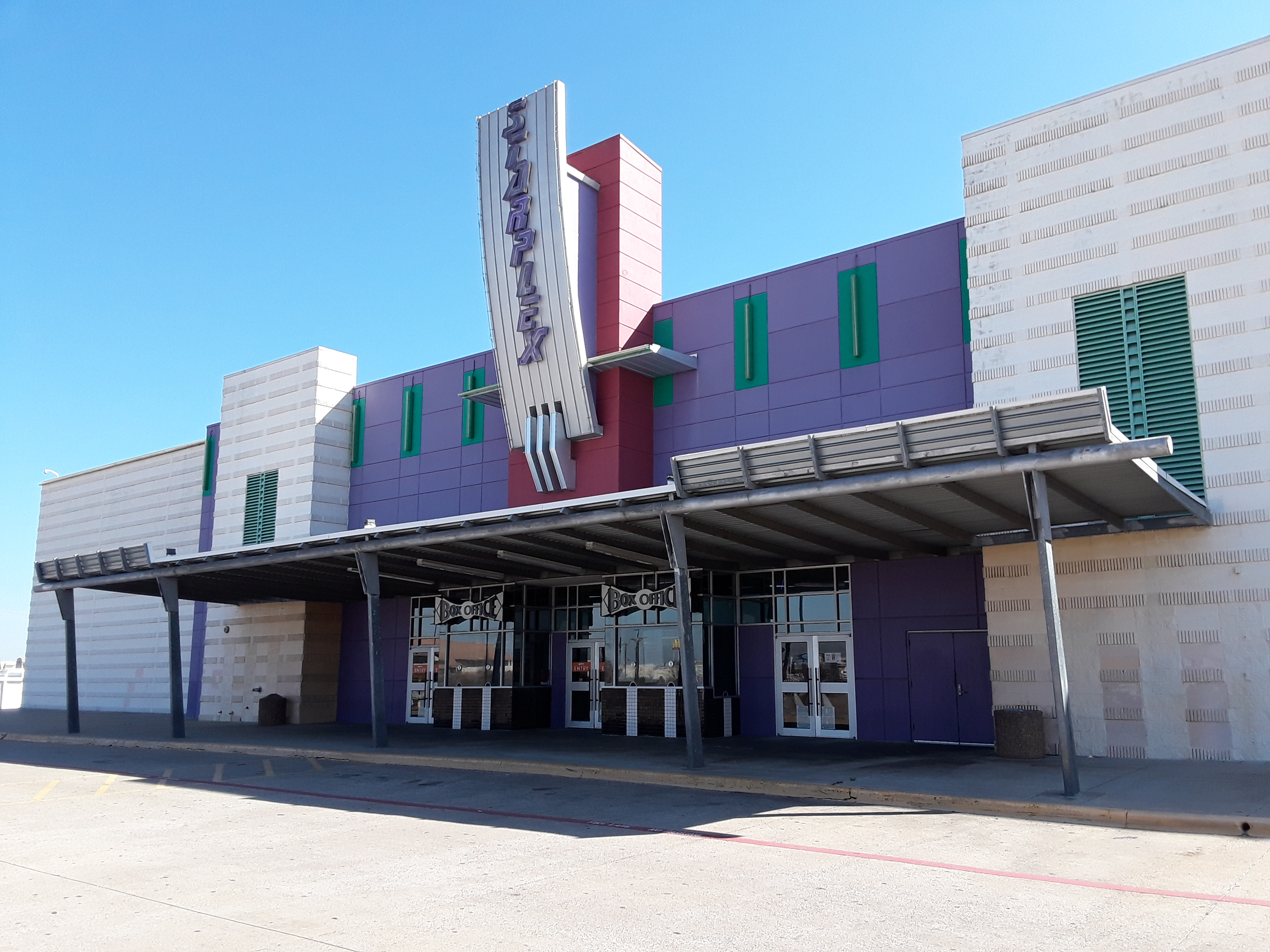 This is a Starplex Cinemas location in Irving circa March 2, 2018. While still displaying the Starplex brand, it is AMC Classic as of 2017.